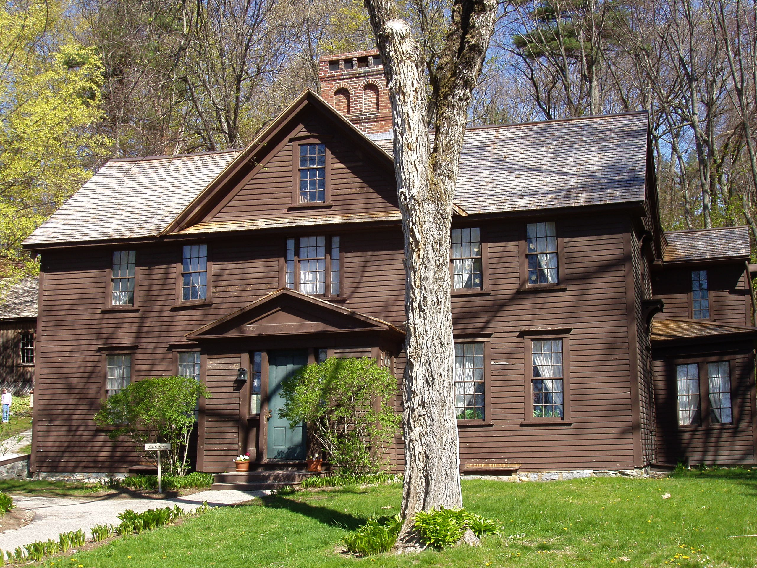 Orchard House - Concord, Massachusetts. Former home of Bronson Alcott and family, including his daughter Louisa May Alcott. Her novel "Little Women" was written in the house in 1868, and loosely based on both the house itself and her family.